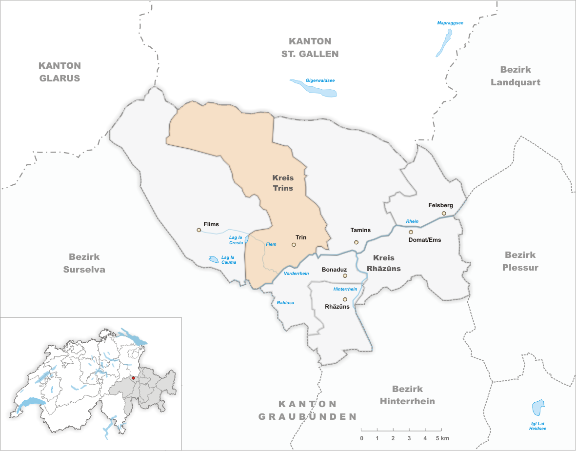 Municipality Trin